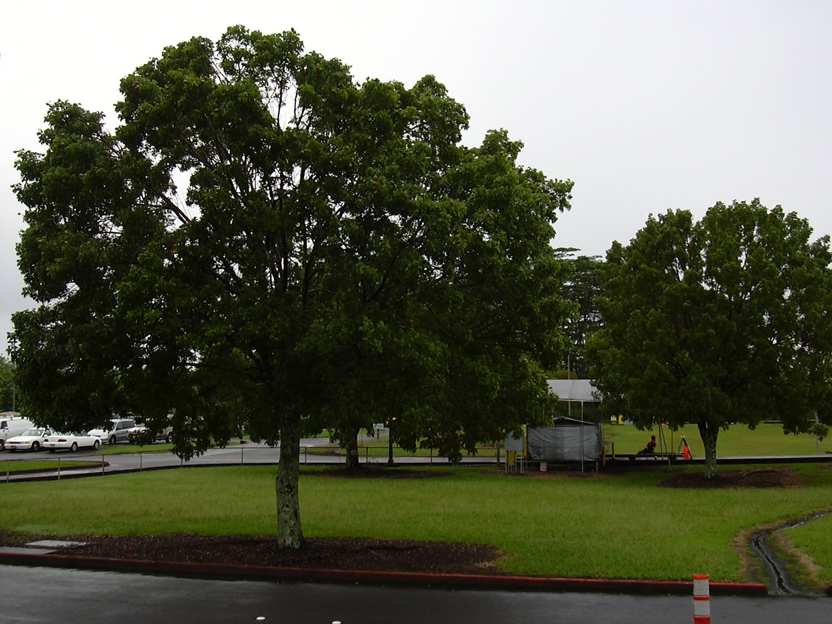 Swietenia mahogani (habit). Location: Hawaii, Hilo